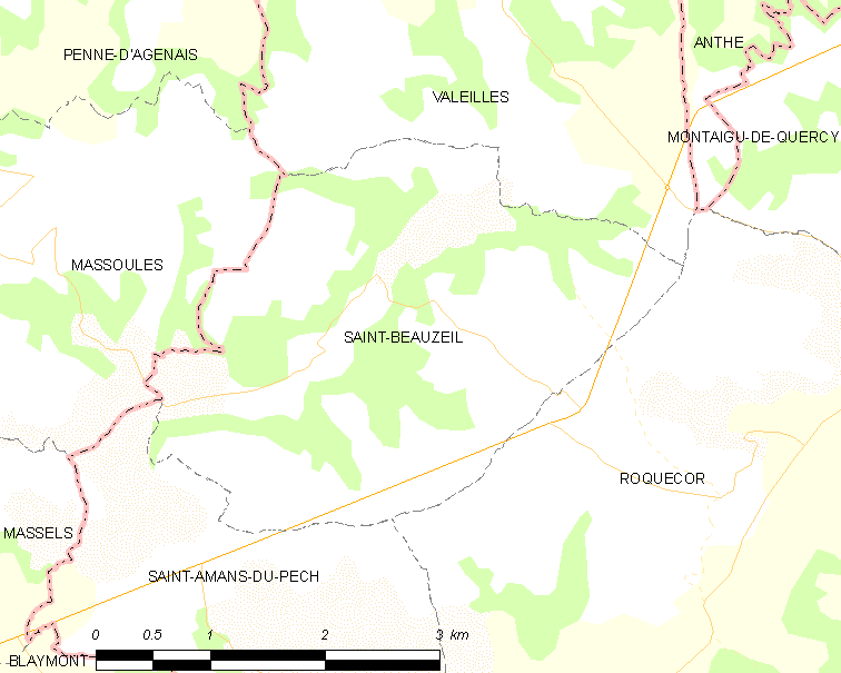 Map of French municipality Saint-Beauzeil